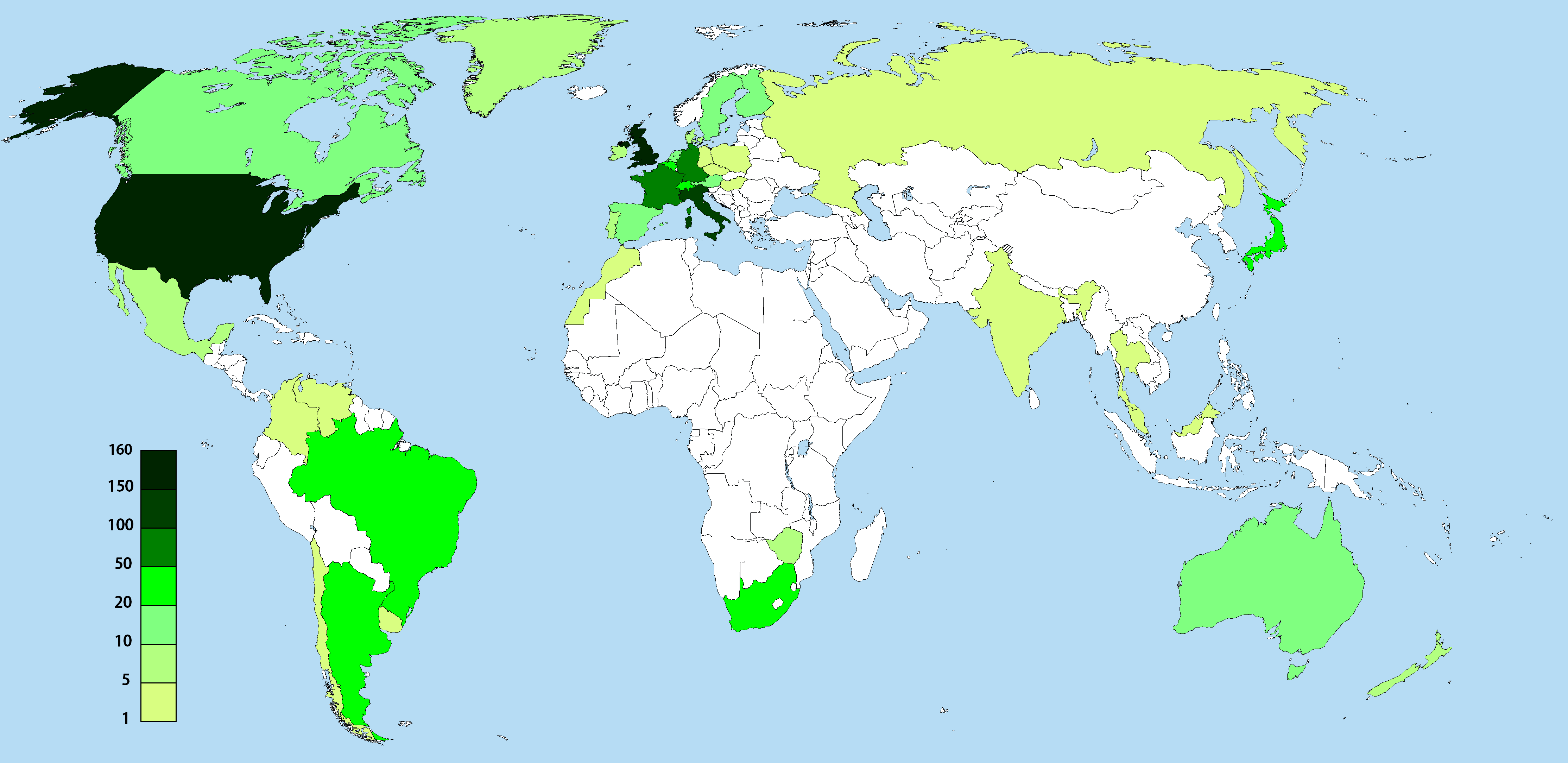 This map shows the number of Formula One drivers by nationality.